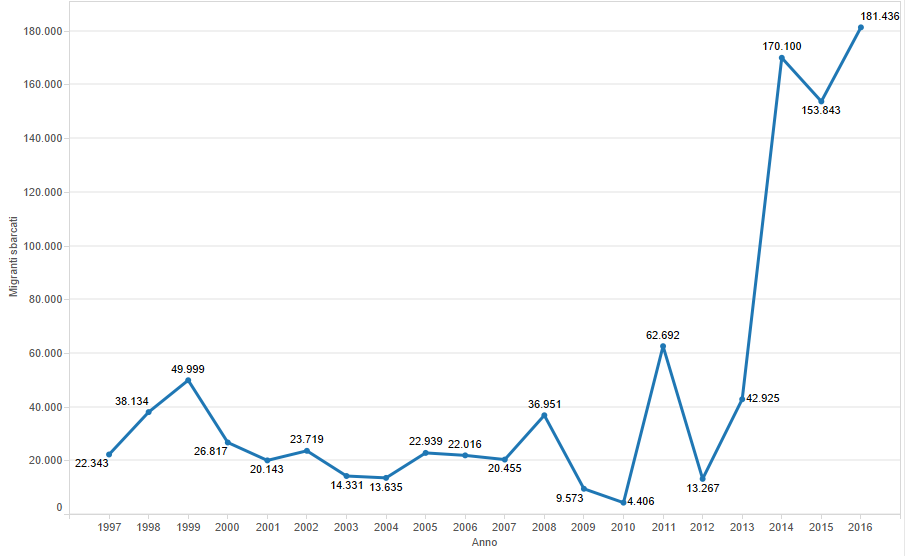 Migrants arrived in Italy by boat, 1997-2016 Sources: Fondazione Ismu, Sbarchi e richieste di asilo 1997-2014; 2015 data: Ministero dell'Interno Italiano